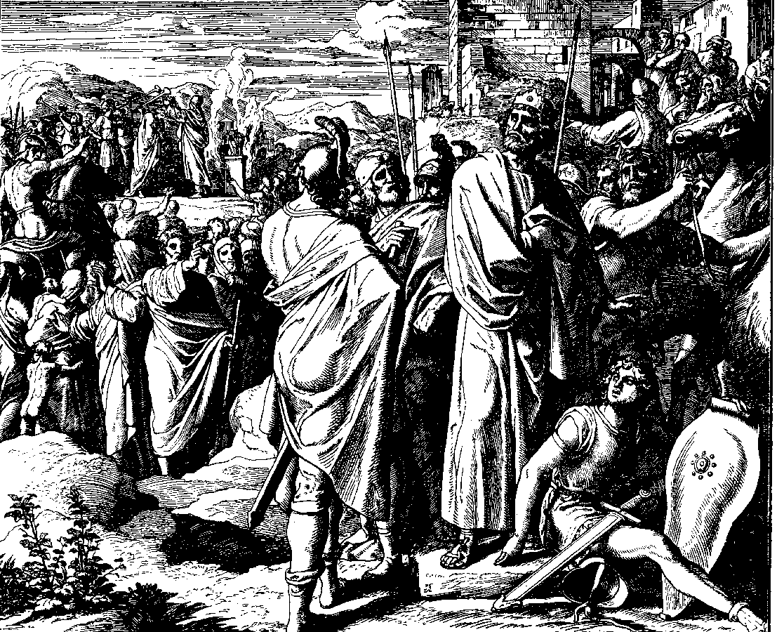 Woodcut for "Die Bibel in Bildern", 1860.